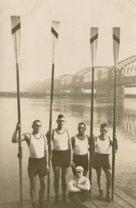 Unia Tczew - klubowa czwórka ze sternikiem około 1930. Na zdjęciu: Witkowski, Wojtowicz, Krajiński, sternik H. Gockowski, Pacholski. W tle - mosty przez Wisłę w Tczewie.